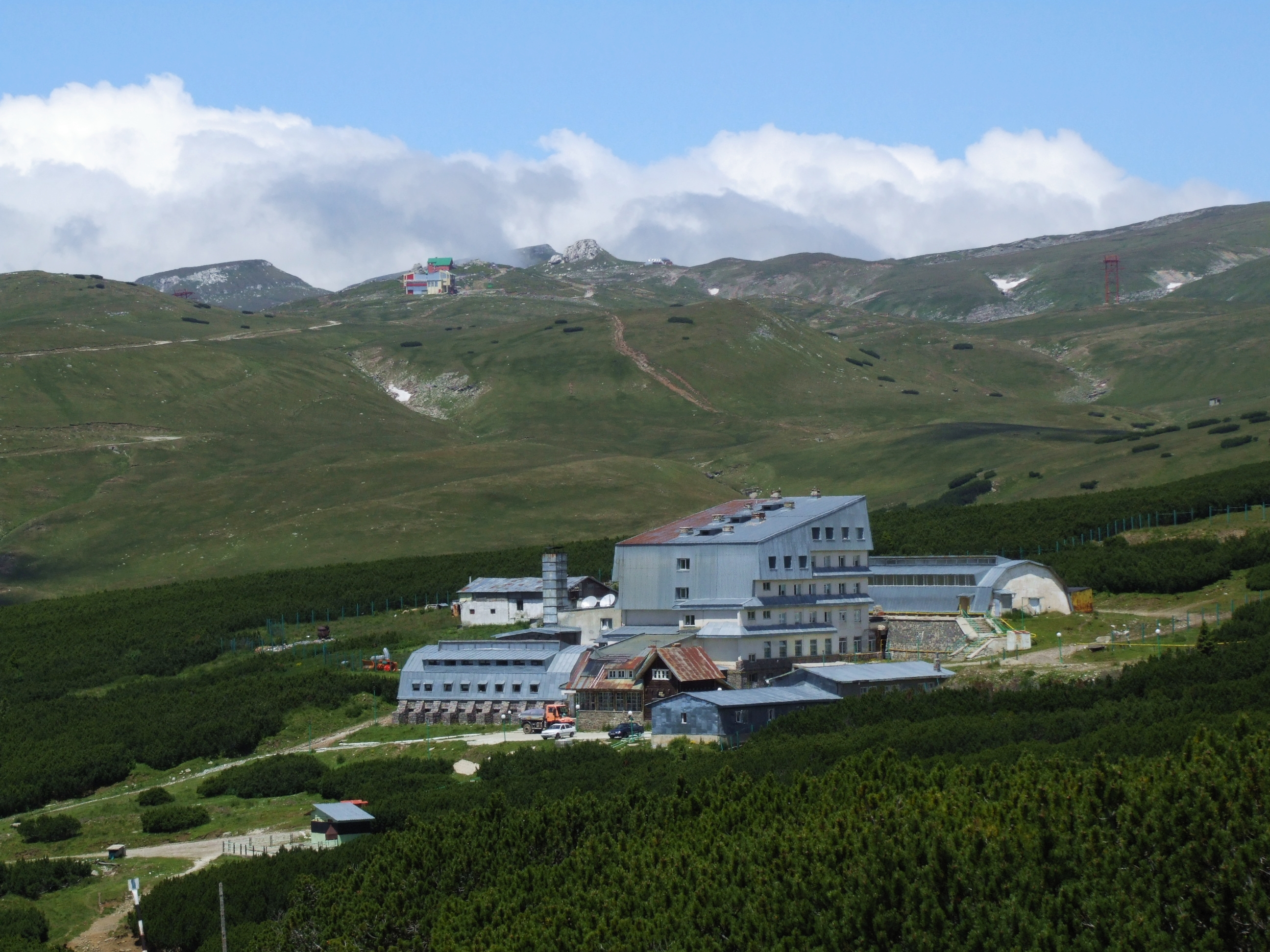 Mountain hotel "Piatra Arsă" in Bucegi